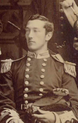 Original caption: "George Taylor Denison II, 1816-1873, Family Portraits Picture, 1877, English Notes Inscribed in pencil, mount vso l.l.: 795; mount vso c.: 2 No. 71 E paid [?] Shows, l. to r.: Frederick Charles Denison, 1846-1896; Henry Tyrwhitt Denison, 1849-1929; George Taylor Denison III, 1839-1925; Septimus Julius Augustus Denison, 1859-1937; John Denison, 1853-1939; Egerton Edmund Augustus Denison, 1860-1886; Clarence Alfred Kinsey Denison, 1851-1932. Rev. NOV 20 1990" This image is available from the Toronto Public Library under the reference number 974-30-5 CabThis tag does not indicate the copyright status of the attached work. A normal copyright tag is still required. See Commons:Licensing. English | français | +/−